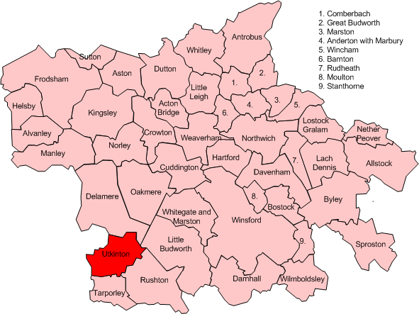 Utkinton Parish within the Vale Royal boundary